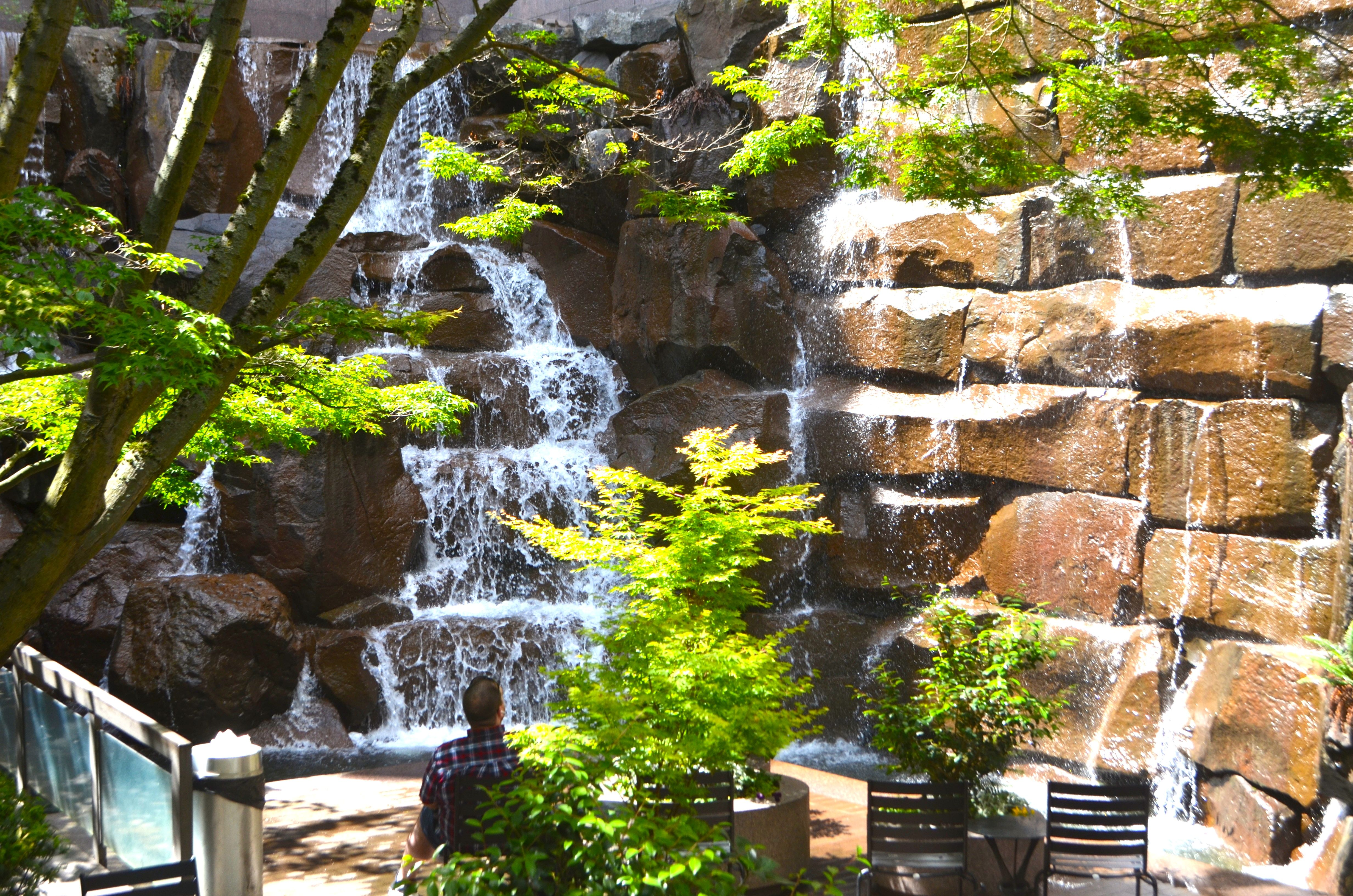 The UPS Waterfall Park in Seattle is in Pioneer Square.